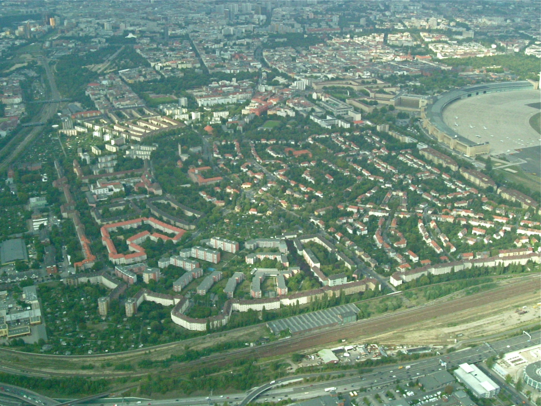 Neu-Tempelhof, Airport Berlin-Tempelhof, Aerial photograph from the south